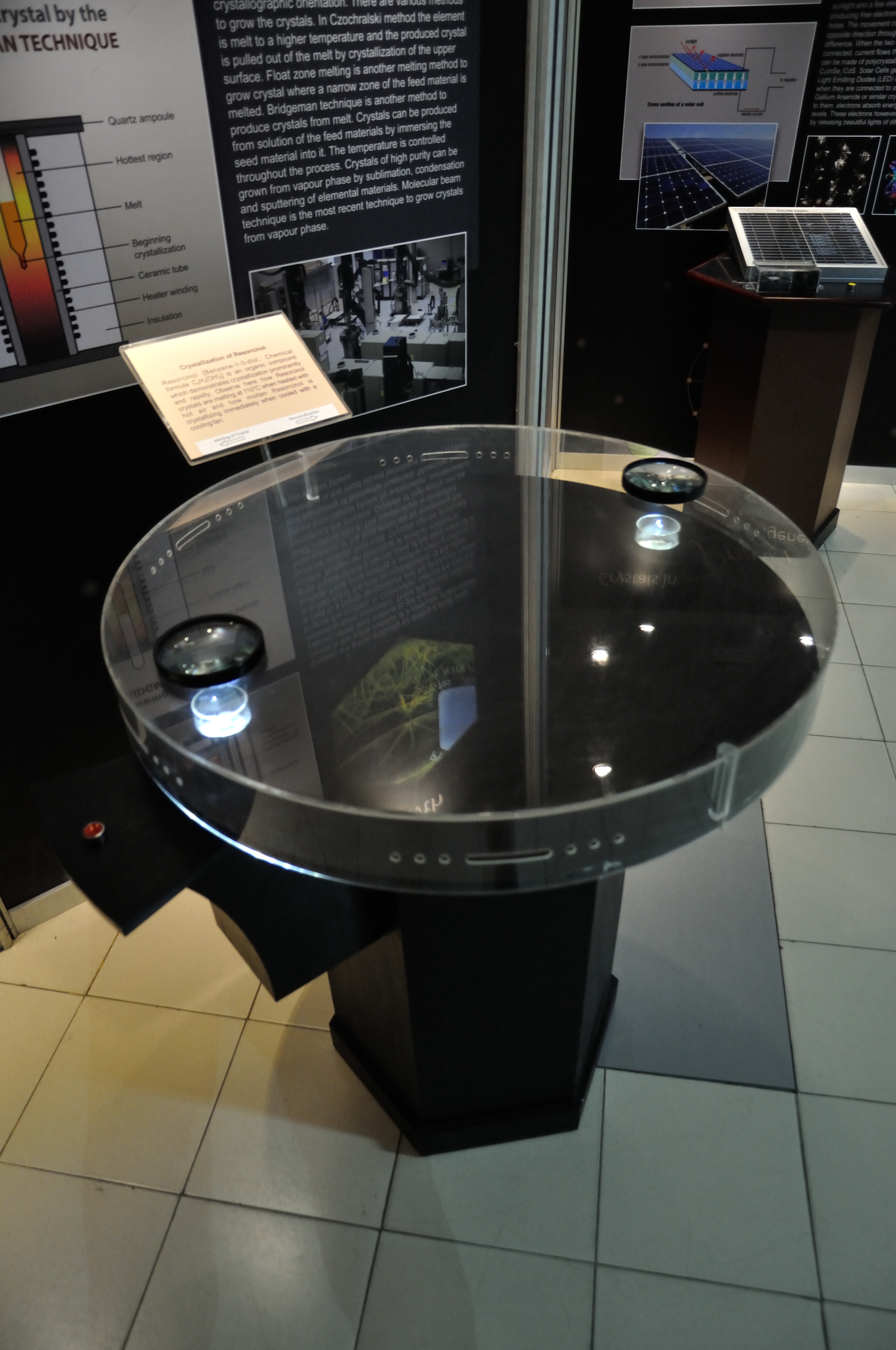 An interactive one month duration exhibition named 'The Wonderful World of Crystals' was inaugurated by Dr. Bikas Kanta Chakrabarti, Director, SINP at the Science City, Kolkata, in presence of about one hundred persons including distinguished guests, officials, press and general people . This exhibition has been developed by the National Council of Science Museums (NCSM), Ministry of Culture, Govt. of India, as the year 2014 has been declared the 'International Year of Crystallography' by the UNESCO and IUCr.